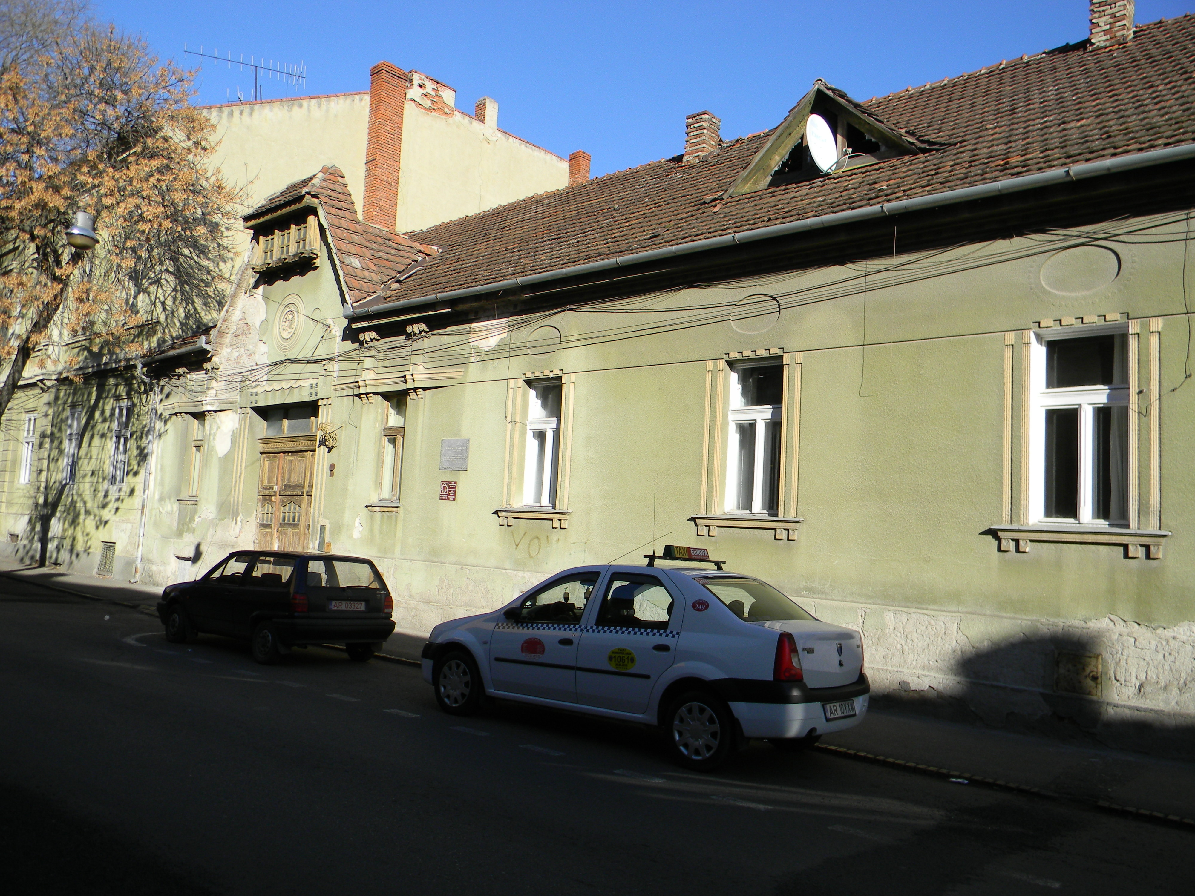 Facade - View from North